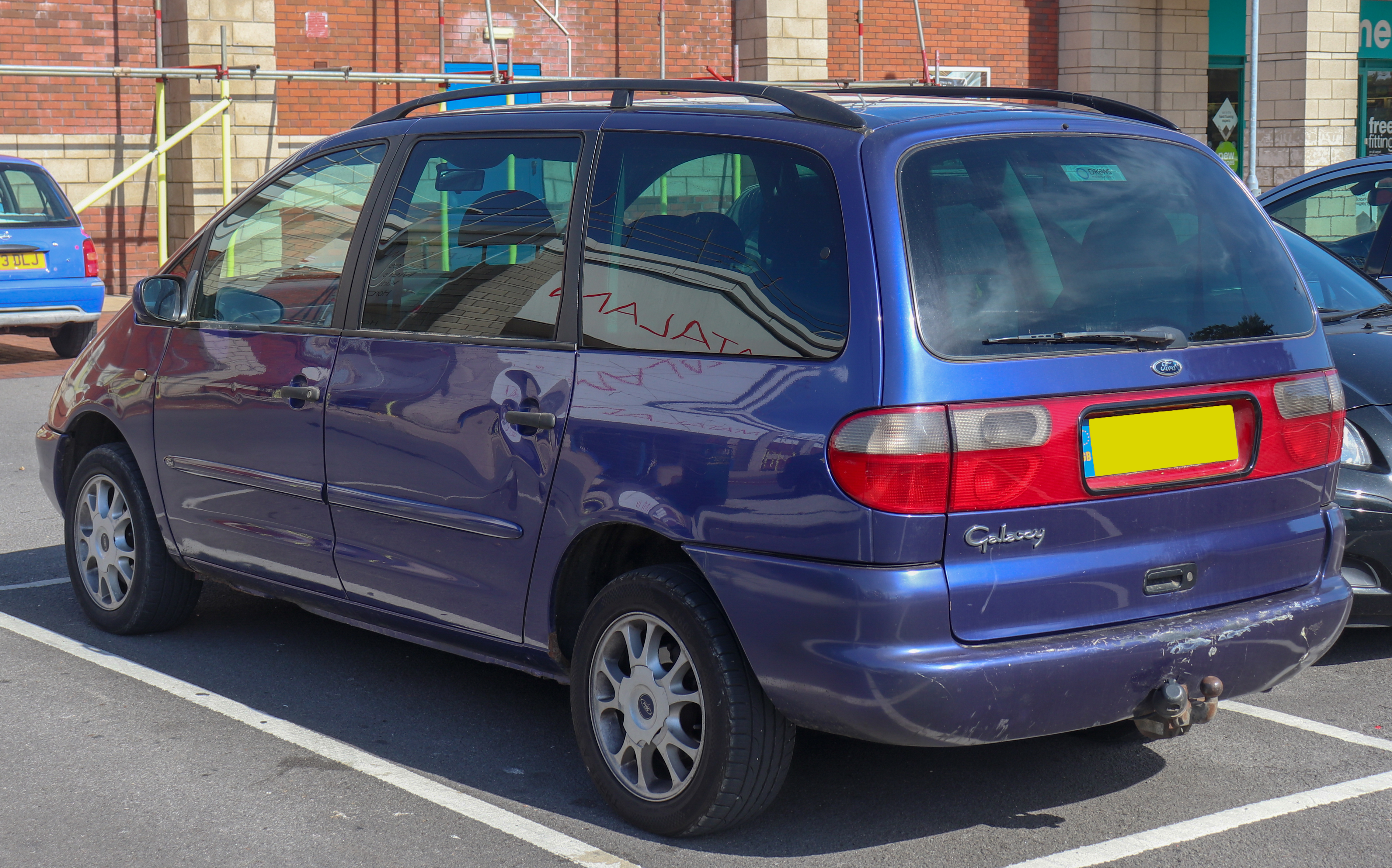 2000 Ford Galaxy Zetec TD 1.9 Rear Taken in Weymouth, Dorset